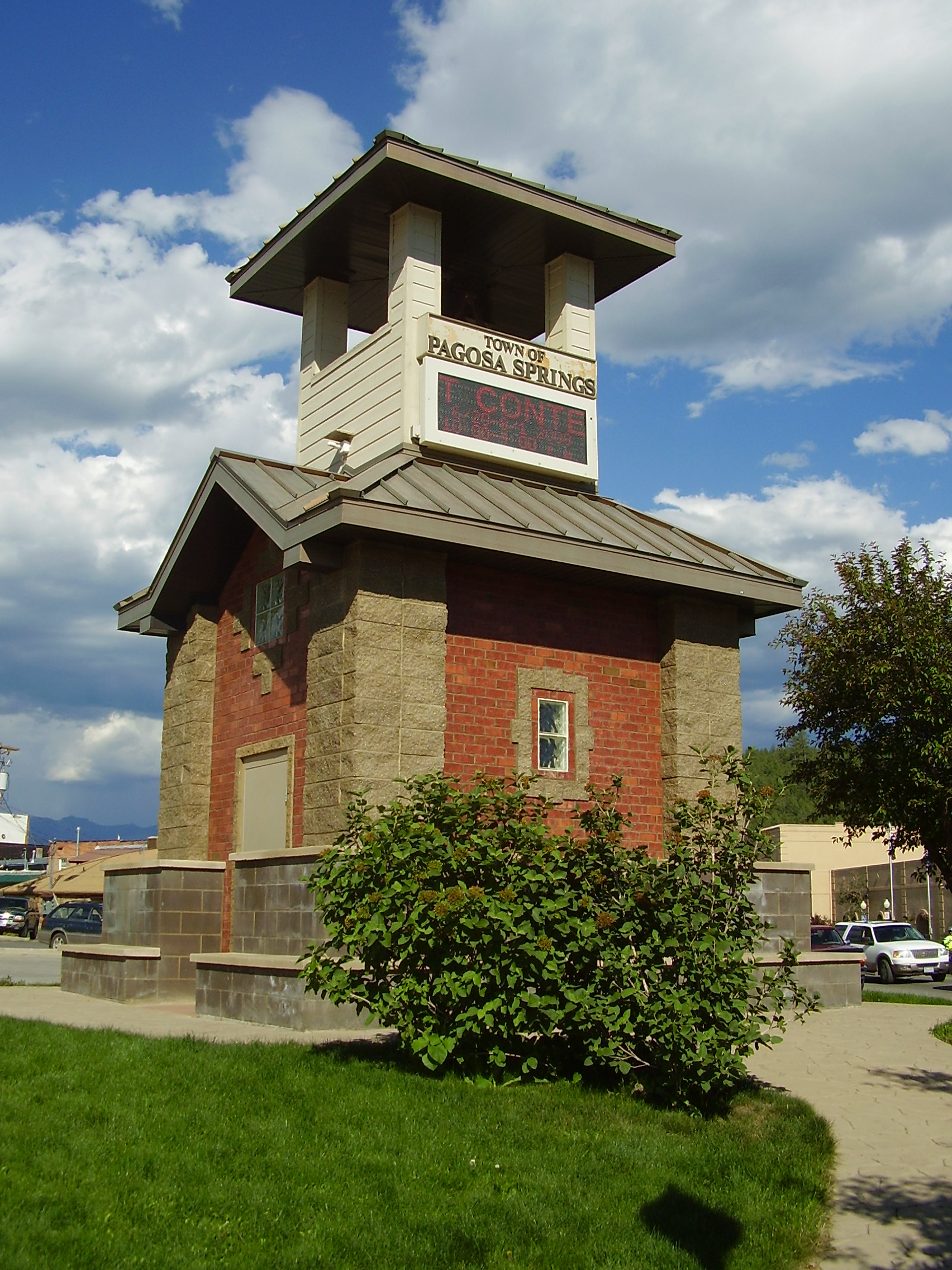 Pagosa Springs tower